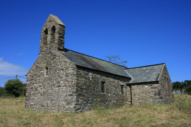 St Eloi's Church, Llandeloy, near to Llandeloy, Pembrokeshire/Sir Benfro, Great Britain. The rear of the Church. See Link